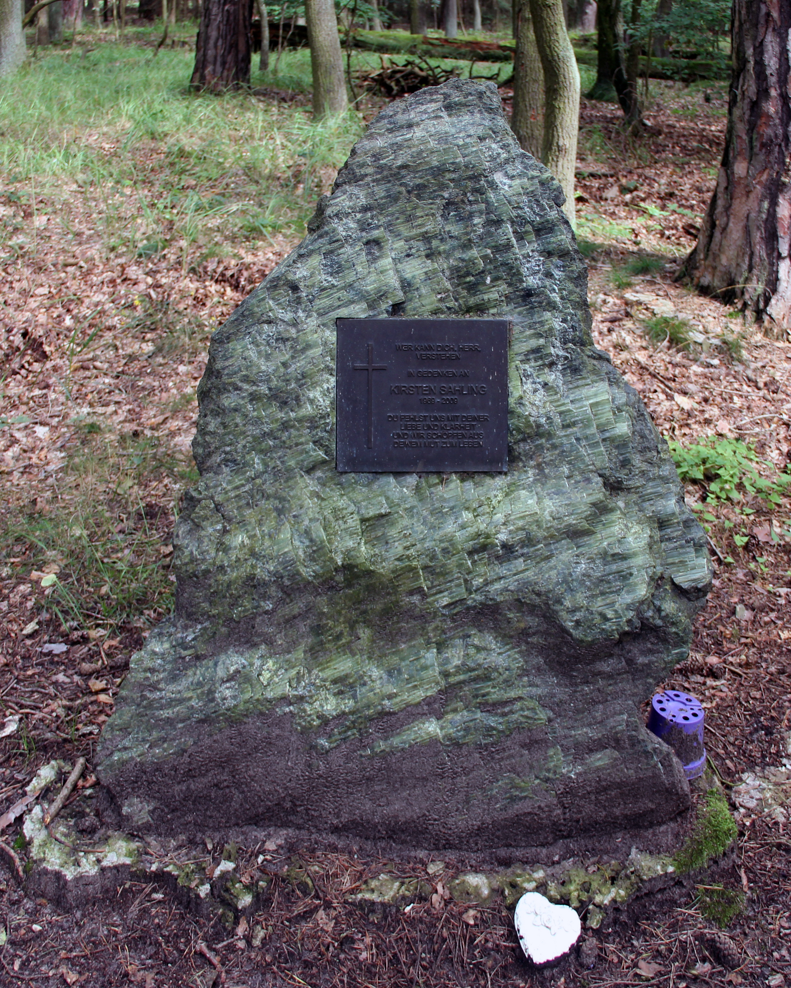 Memorial stone, Kirsten Sahling, Spandauer Forst, Berlin-Hakenfelde, Germany